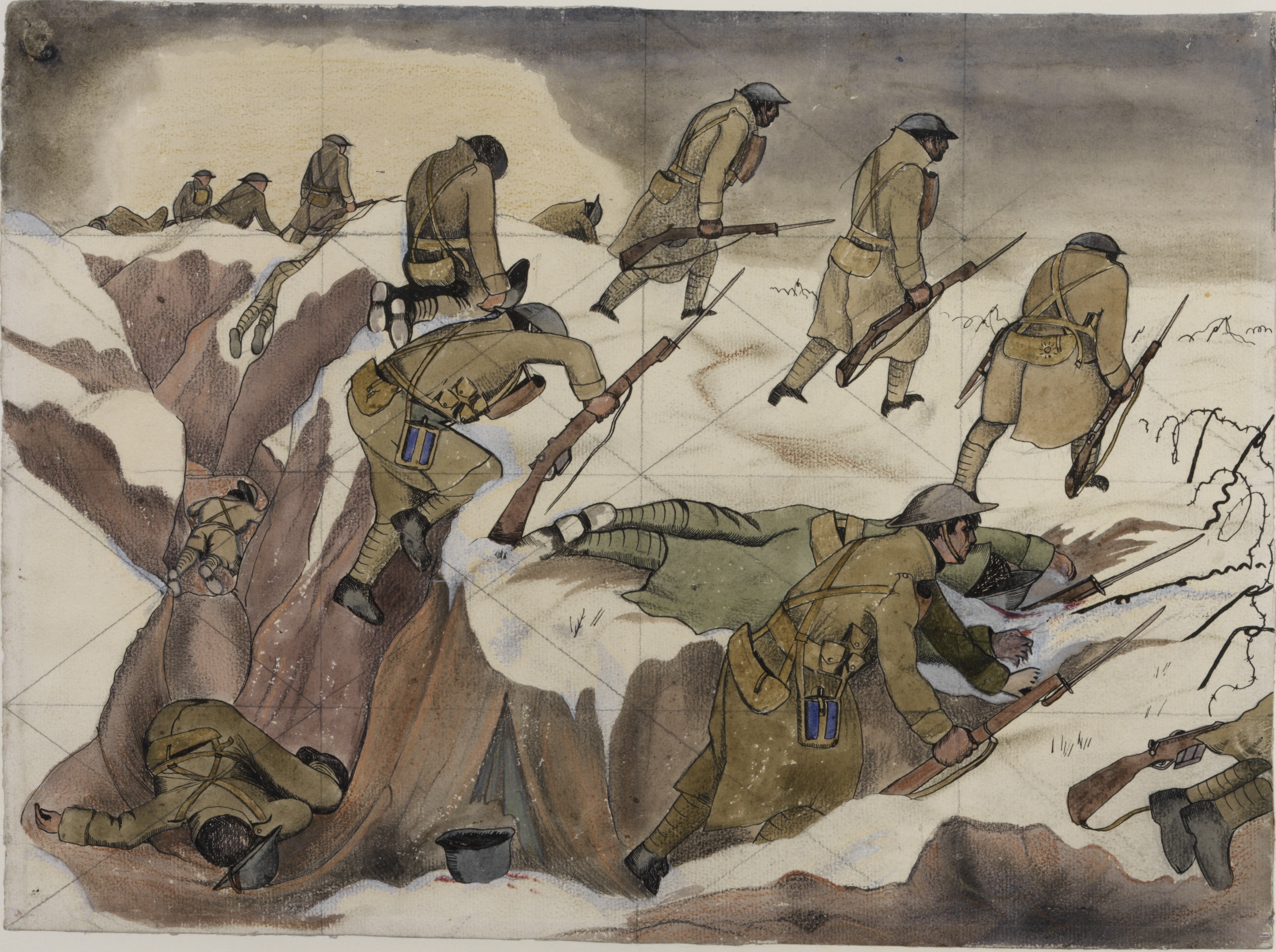 Study for 'over the Top' (iwm Art 1656) image: a squared up preparatory drawing for the oil painting 'Over the Top' (IWM ART 1656). On the left, a red earth trench lined with duckboards stretches away from the viewer. A group of soldiers clamber from the trench, going 'over the top'. Two lie dead in the trench and another has fallen lying face down in the snow. Those who have survived plod forward towards the right without looking back. They walk beneath a grey, stormy sky, with clouds from shell and gunfire in the distance.